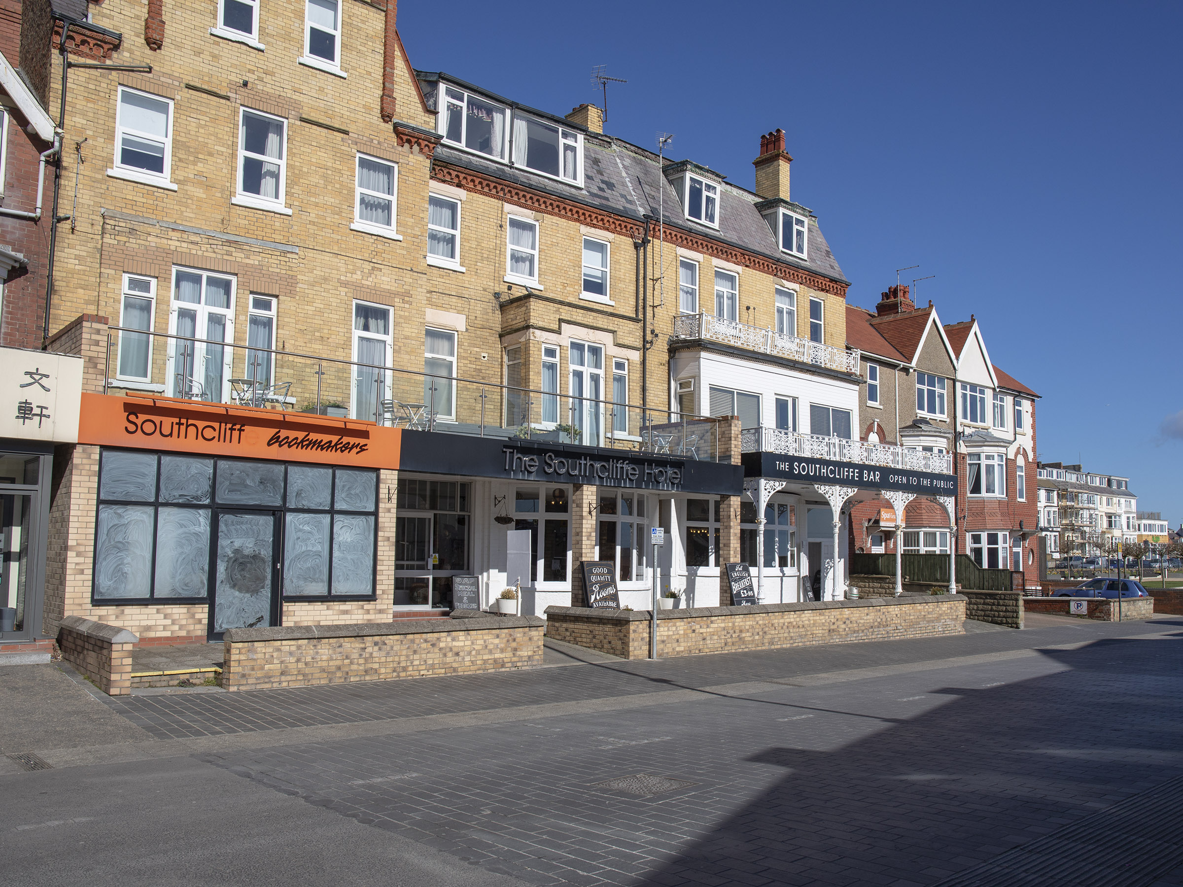 The Southcliffe Hotel, Bridlington. This used to be the Station Headquarters for RAF bridlington during the Second World War